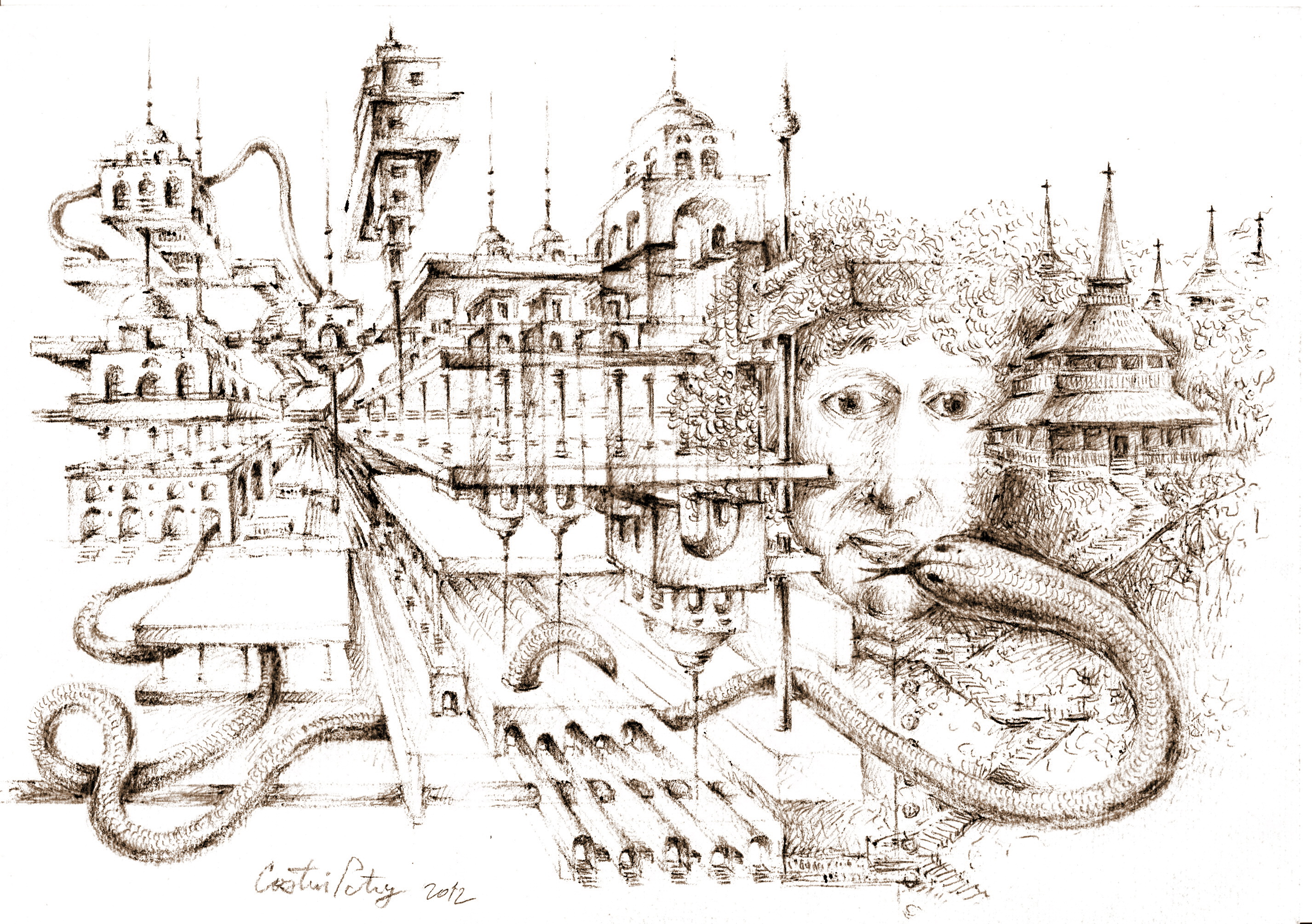 Serpent's embrace - Le baiser du serpent, 2012 (drawing pencil, sepia)